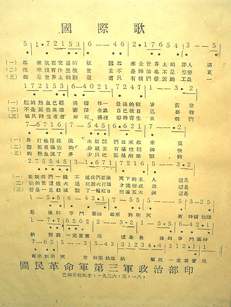 The National Revolutionary Army Version of The Internationale